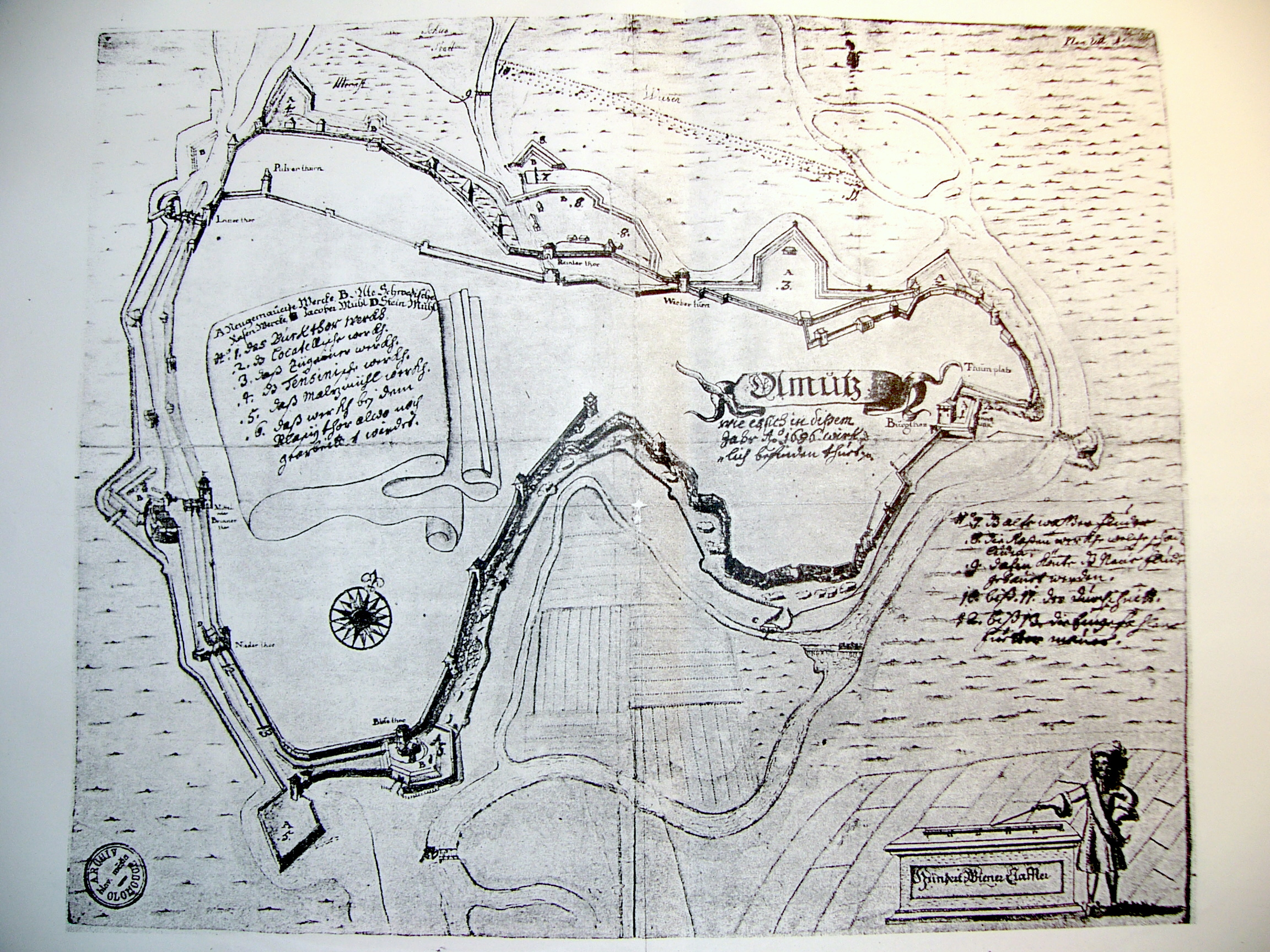 Historcal map of Olomouc (Czech Republic) in 1686.